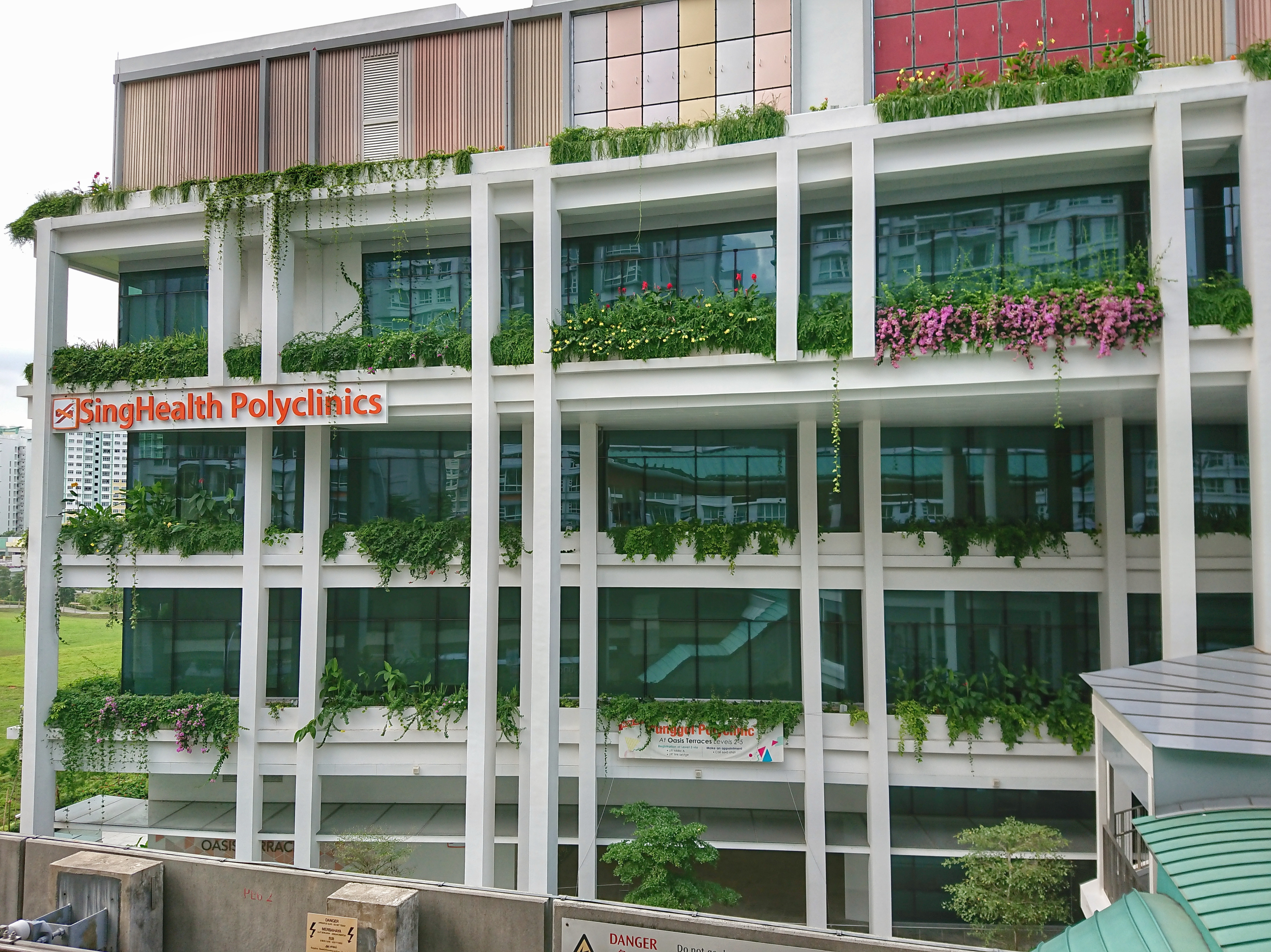 Front facade of Punggol Polyclinic. Taken on Oasis LRT station with Xperia XZ Premium.